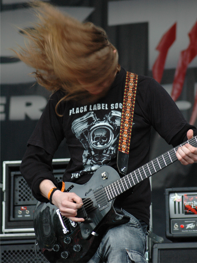 Gniewomir "Rudy" Latacz from Totem on Hunter Fest 2007